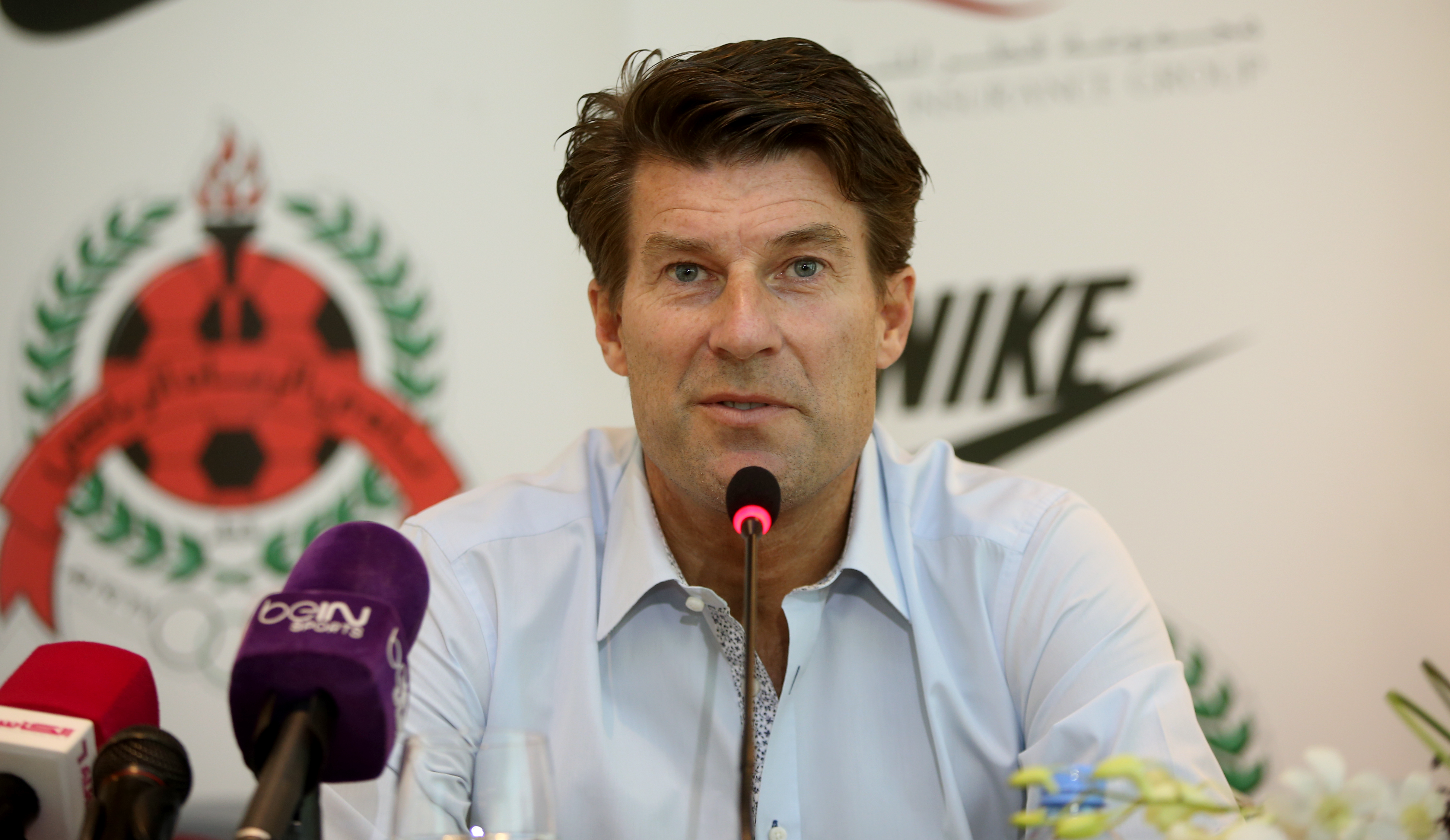 Al Rayyan football coach - Photographer - Mohan